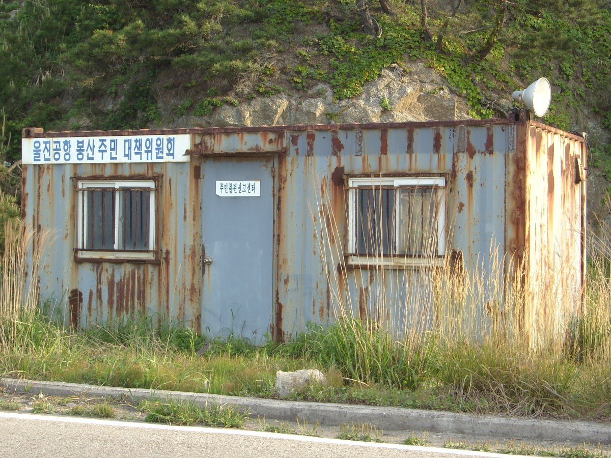 Uljin airport committee